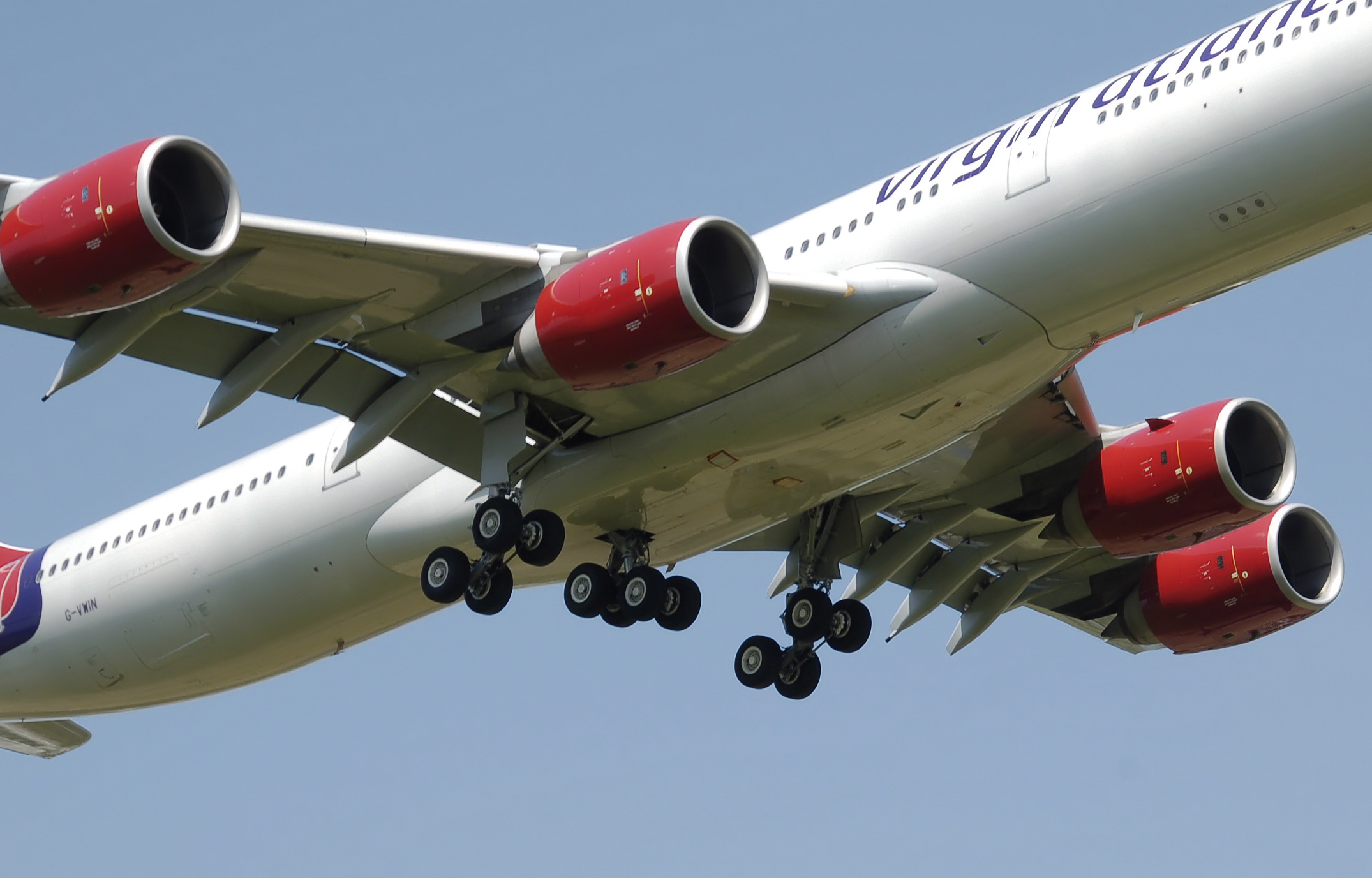 Virgin Atlantic Airbus A340-600 (G-VWIN) arrives London Heathrow, England.